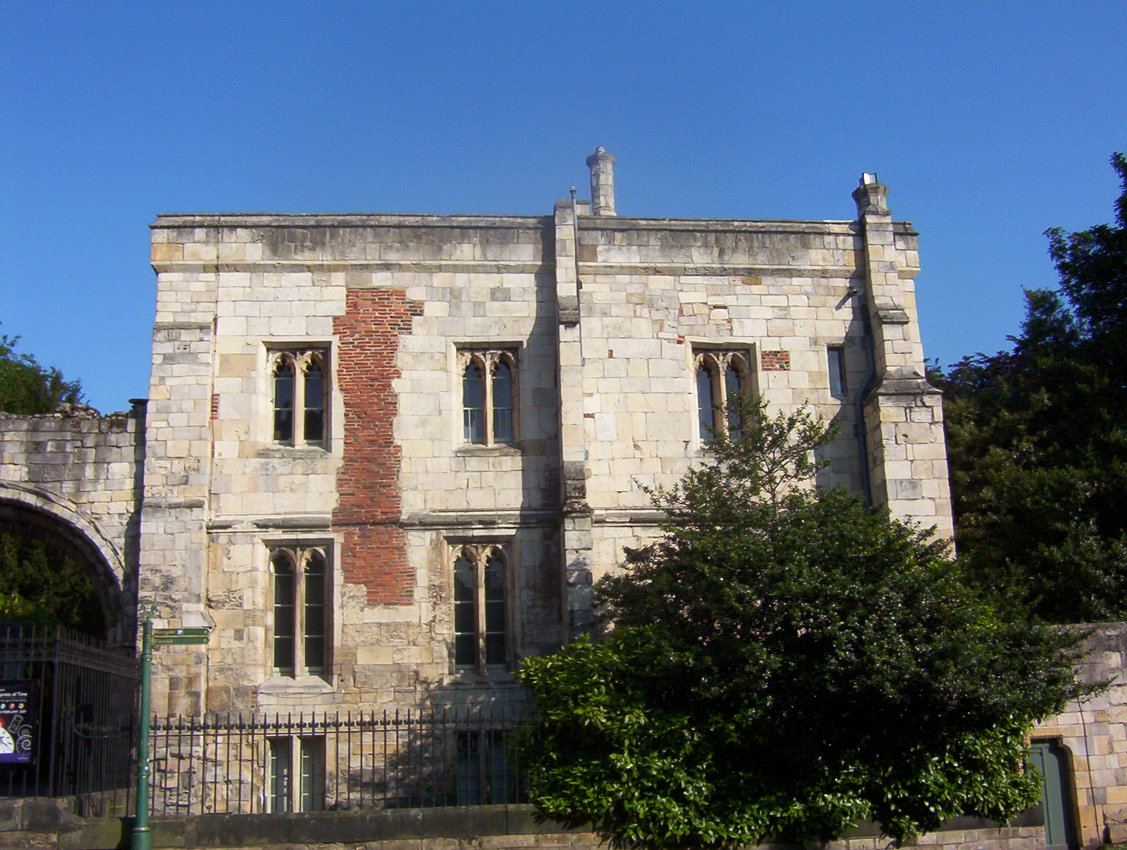 The medieval St. Mary's Lodge in Museum Gardens York.